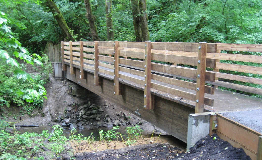 Tryon Creek State Natural Area, High Bridge in July 2007.